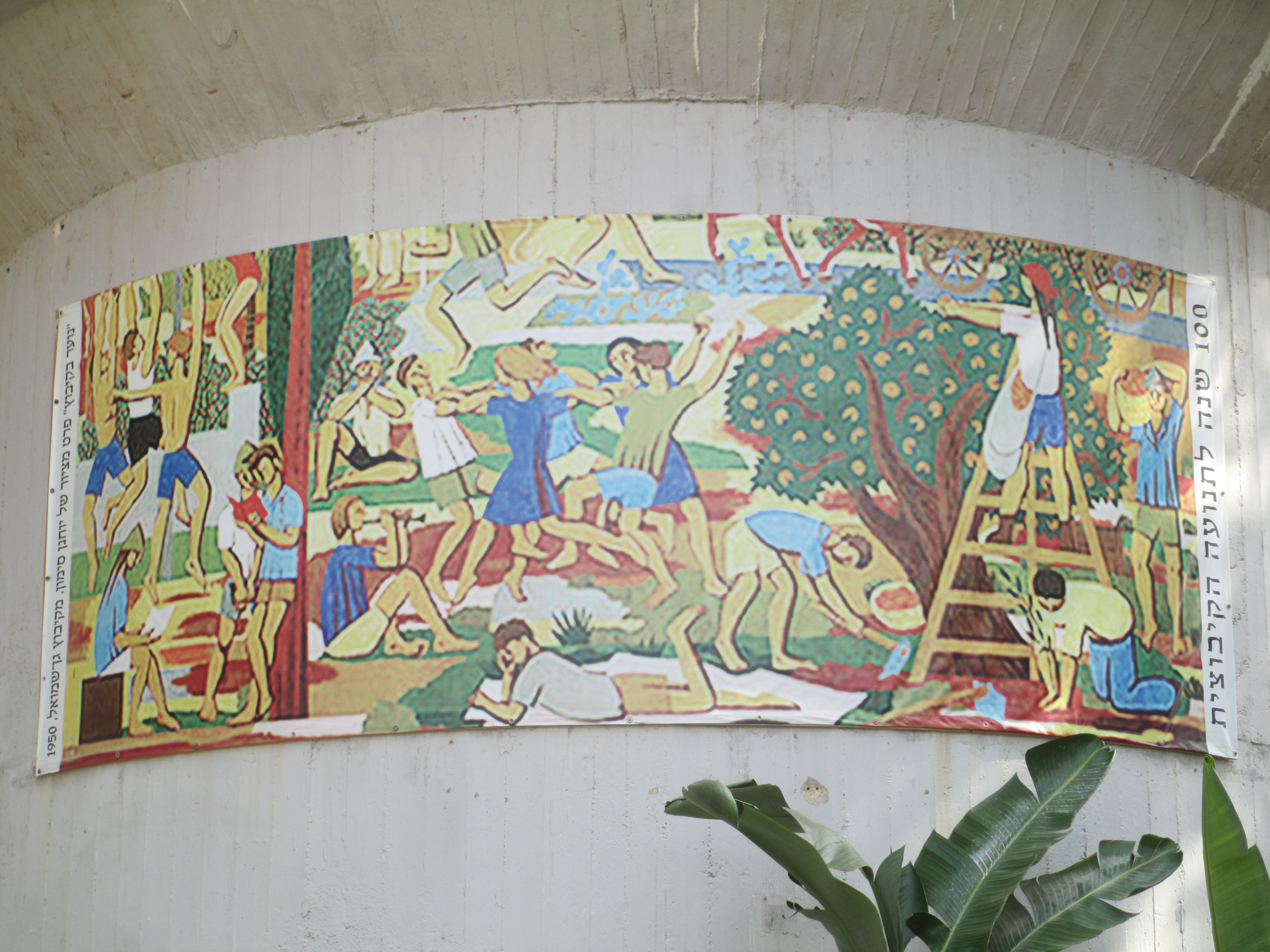 Painting by Yohanan Simon in Kibbutz Shefayim